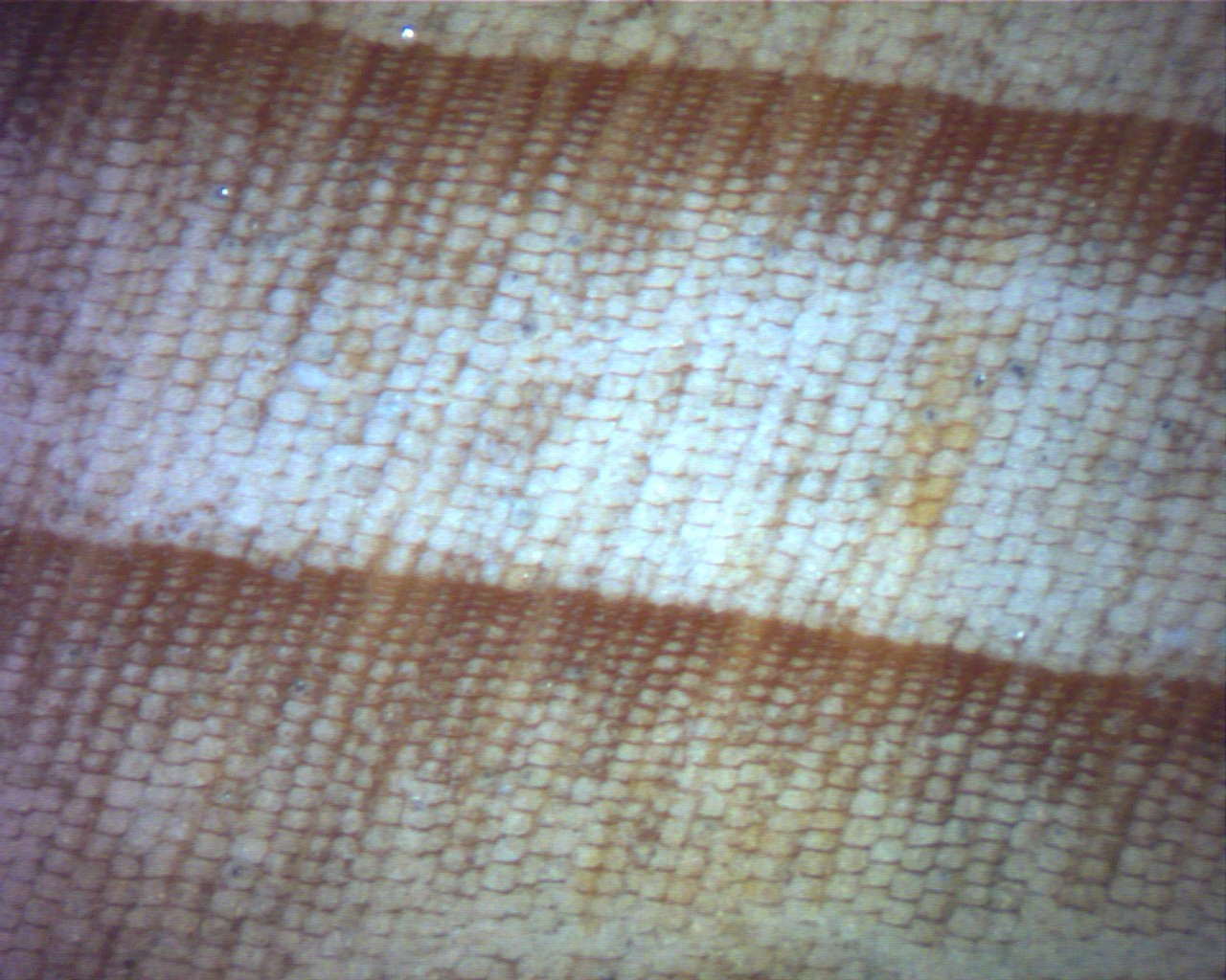 A tree ring of Picea abies, cellular structure and the diffuse transition from earlywood to latewood. Image width is about 2.1 mm.